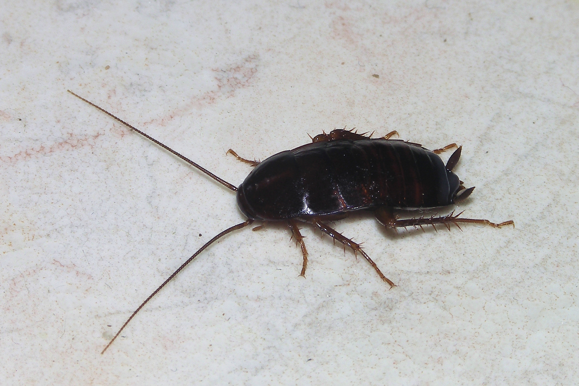 An oriental cockroach (female Blatta orientalis).